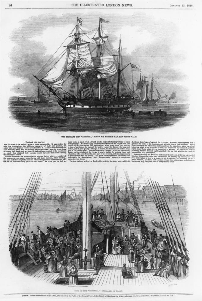 Artemisia (ship) Caption: The emigrant ship 'Artemisia', bound for Moreton Bay, New South Wales.